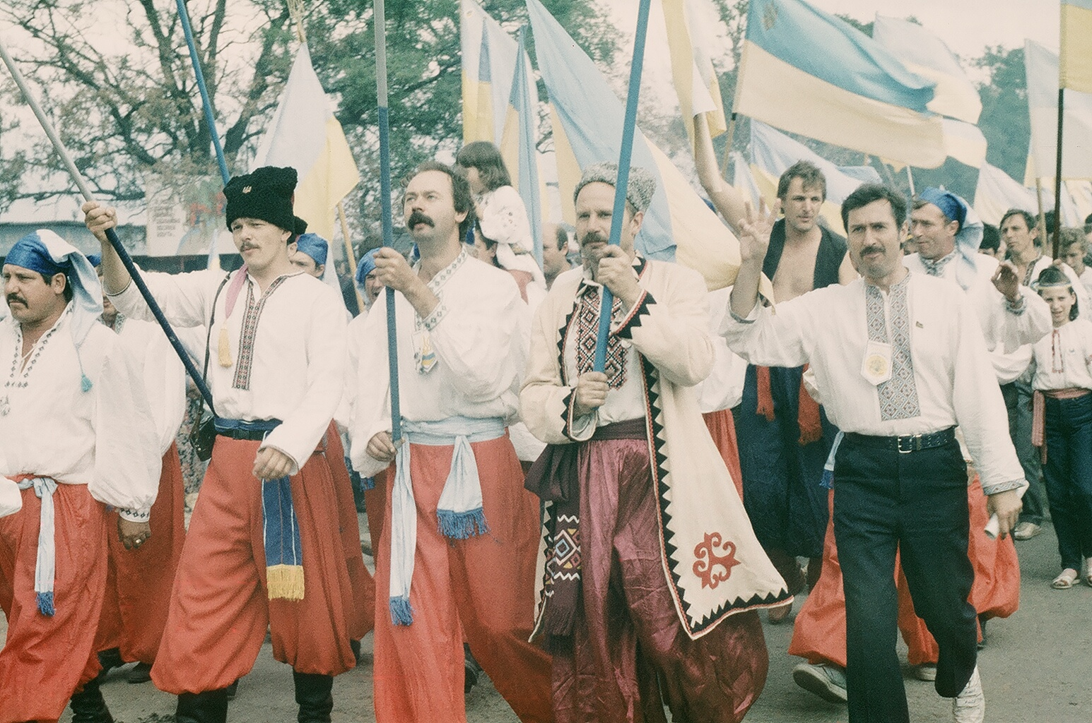 500th Anniversary of the Zaporozhian Cossacks.